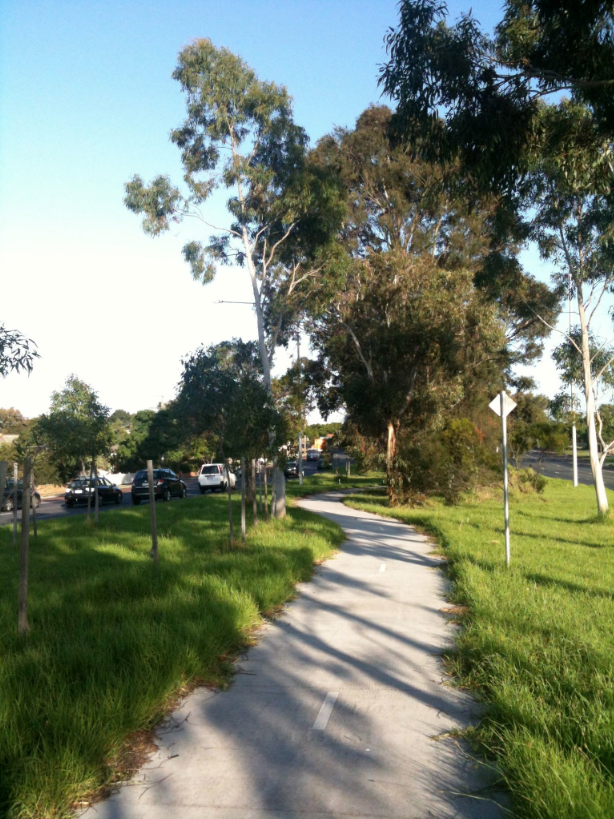 North Road Trail west of Greta Street in Clayton, Victoria, Australia